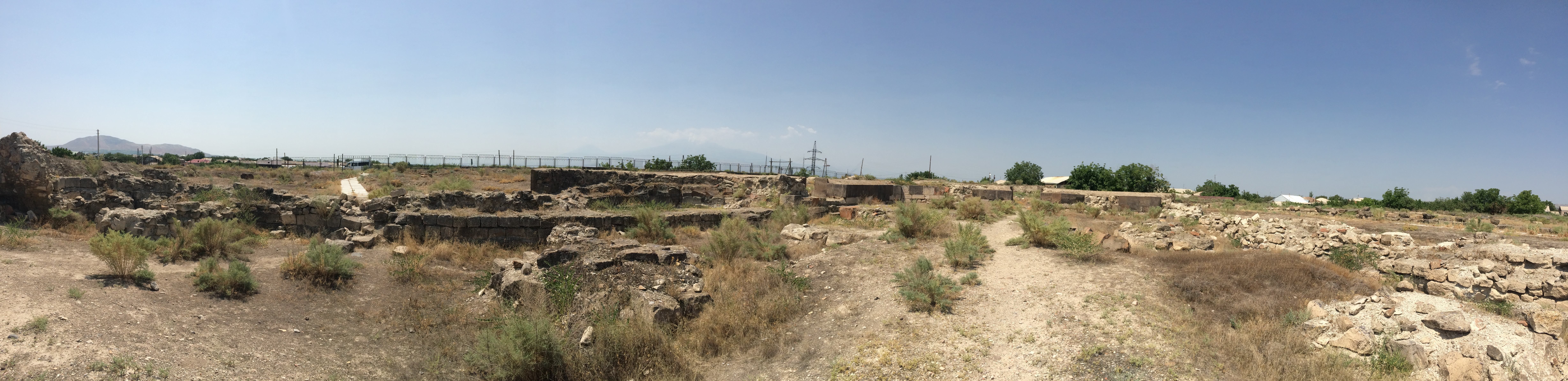 Ruins of Dvin, Armenia